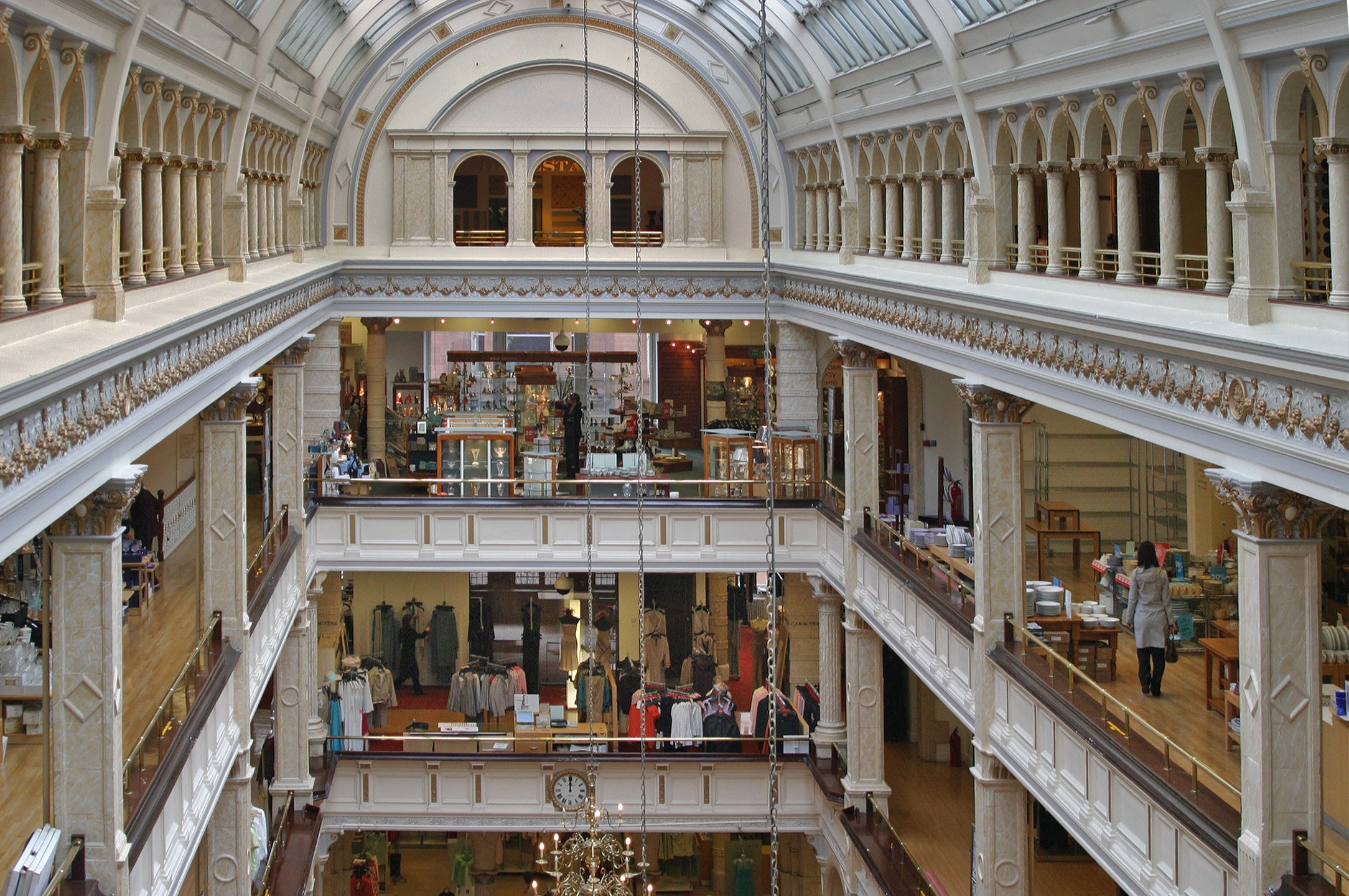 Frasers (House of Fraser), a distinguished department store in Glasgow.